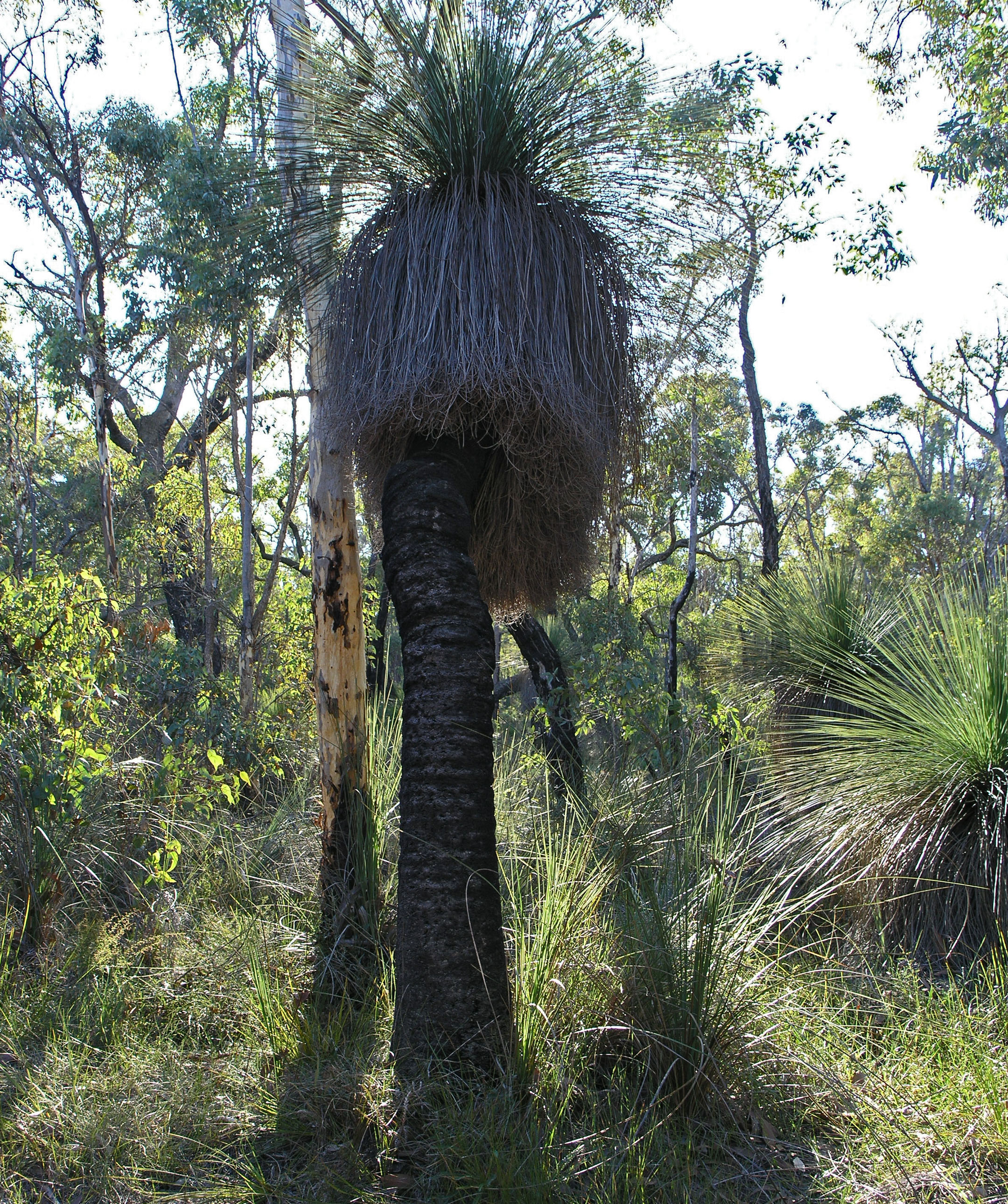 Xanthorrhoea or grass tree. Taken at Chidlow, Western Australia.